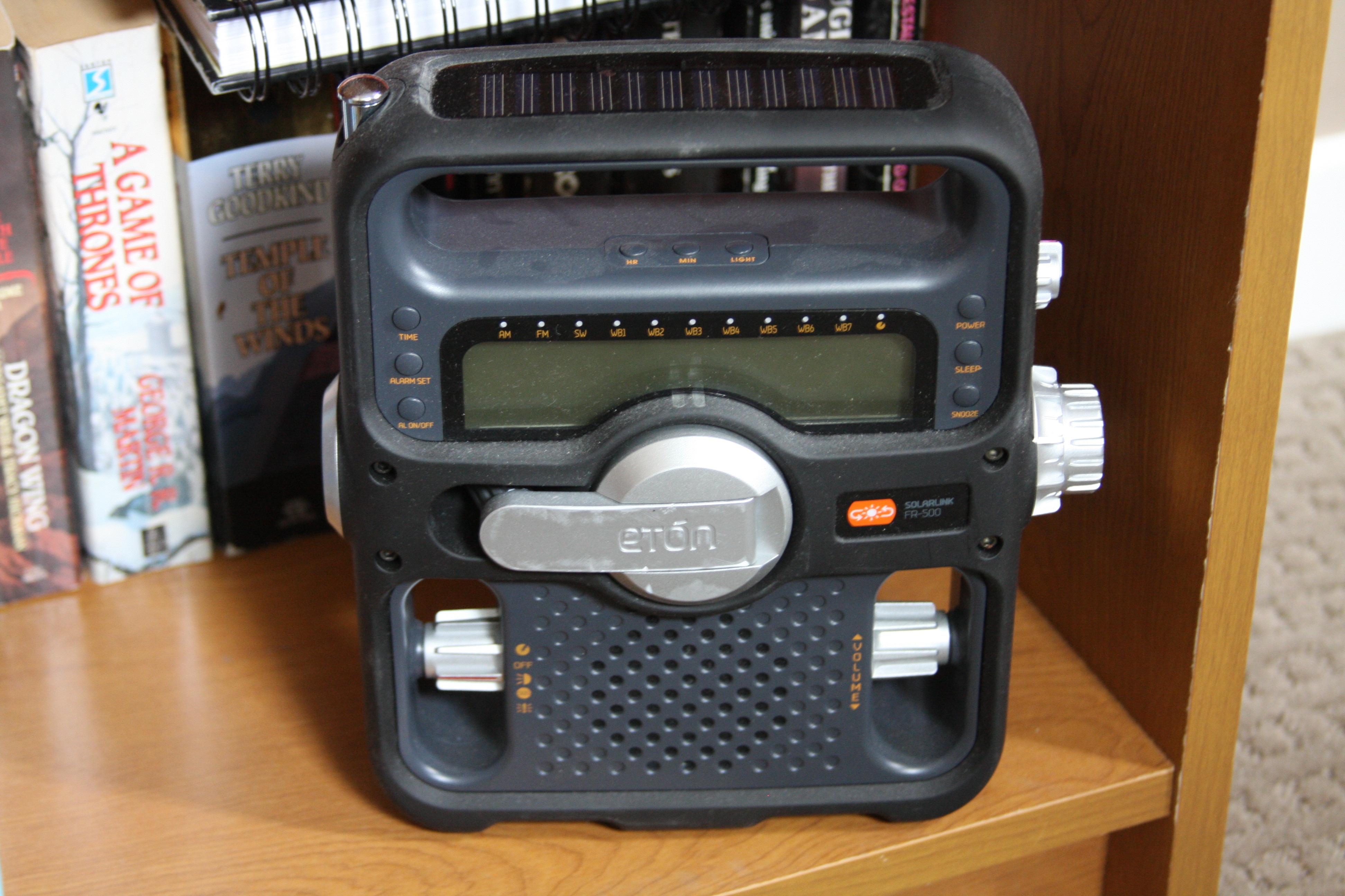 This one is handy, although I haven't used it this year (notice the dust) it has a li-ion battery, dynamo crank and solar panel for power, as well as shortwave/FM/AM/wx radio, a light, siren and USB out port. Etón Corporation was originally a Grundig distributor, later an importer of chinese radios under its own brand (including "replicas" of classic Grundigs) [1].